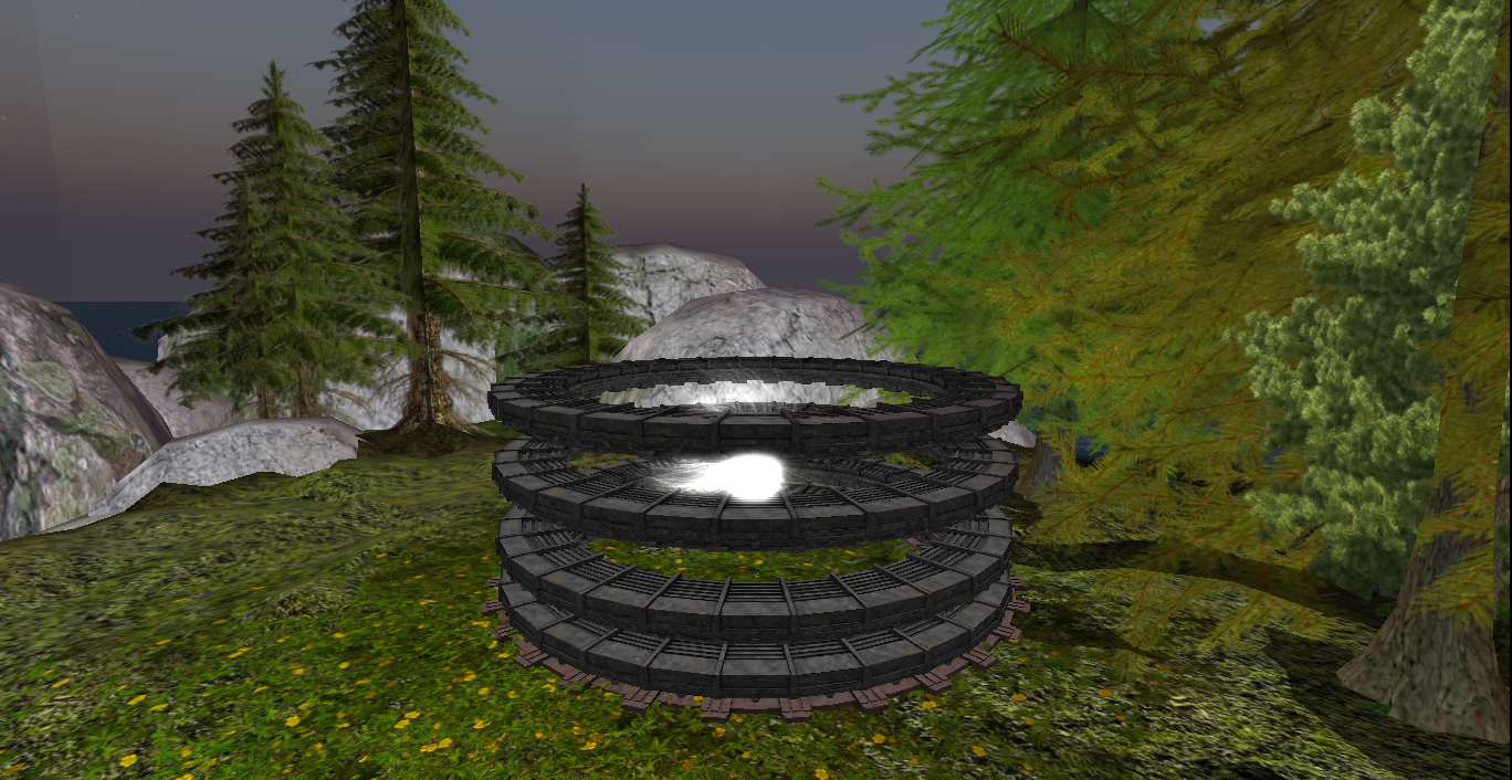 A picture of the transportation rings, a teleportation device in the Stargate universe. The glowing object in the device is an ascended Ancient being teleported. The picture is photographed in the virtual world of Second Life.